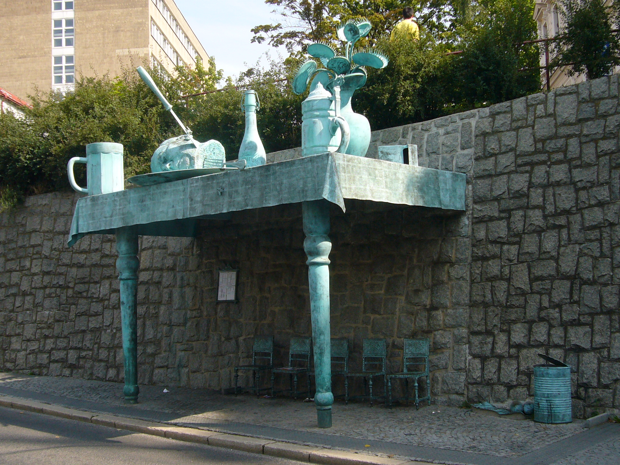 "Feast of Giants". The bus shelter "Sokolská u zdi" in Liberec (the Czech Republic) by David Černý, fixtured 2005, brass.